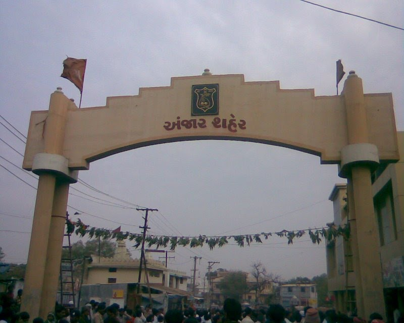 Gate of anjar city in Kutch District, Gujarat, India